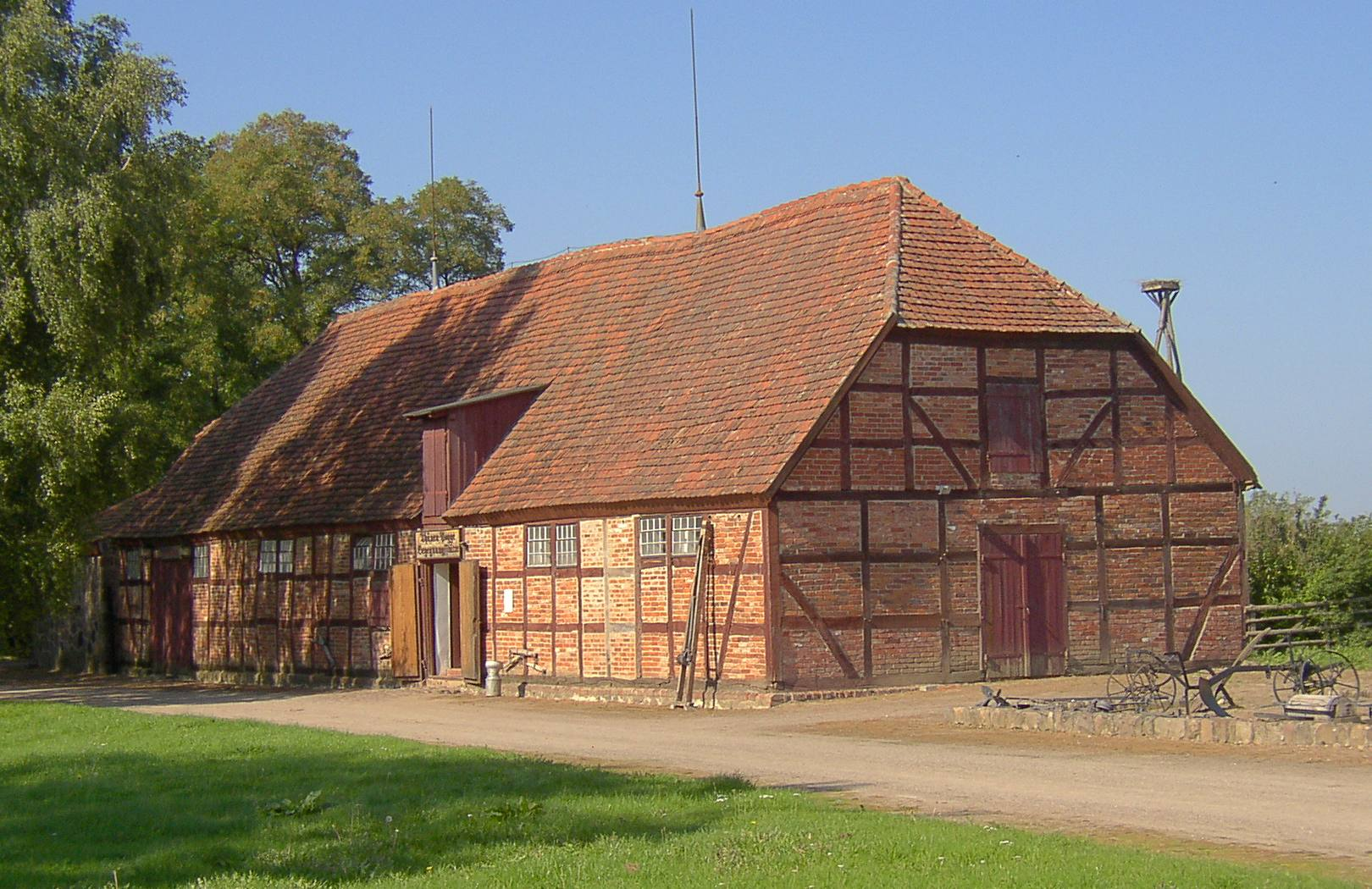 Stable in Tellow in Mecklenburg-Western Pomerania, Germany